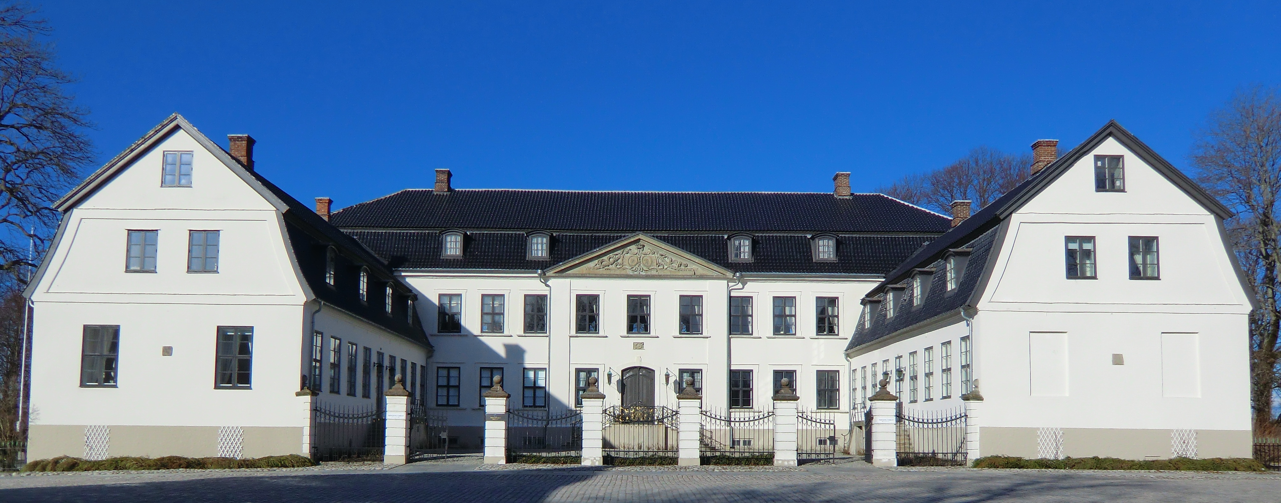 Main building of Hafslund hovedgård (Hafslund manor) near Sarpsborg, Norway.